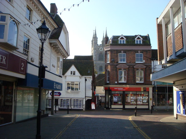 Ashford Kent, North Street Looking from North Street towards the High Street and the church